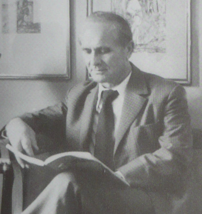 Book: Hârtopeanu, Frida Hârtopeanu, Bucuresti: ARC 2000, 2003 ISBN 973-99718-6-5 (with permission from the Family Hartopeanu)